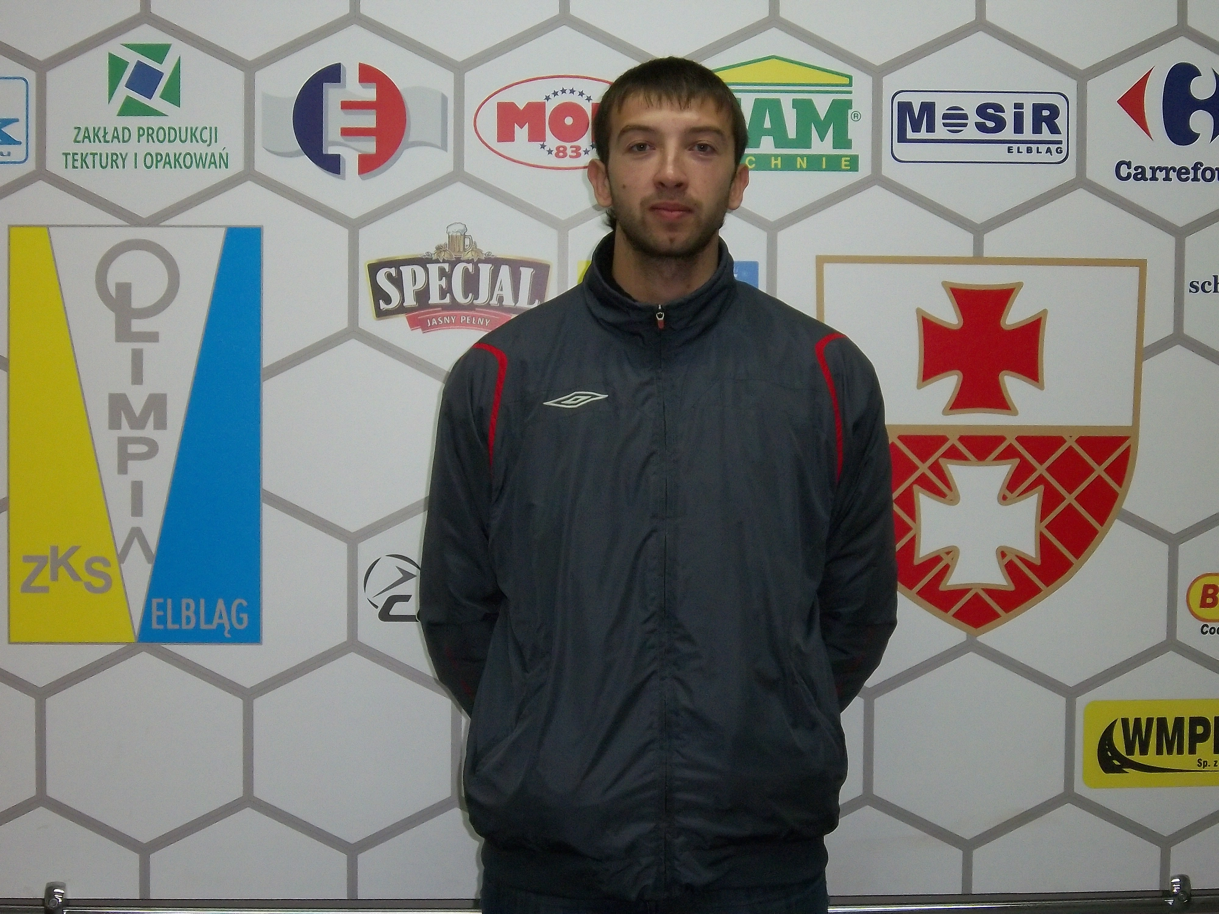 Football player Aleksandr Stascheniuk